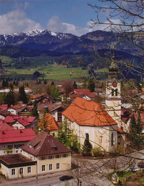 Image description: Sonthofen Quelle: Fotograf/Zeichner:Ingrid Kamerbeek Date:2004